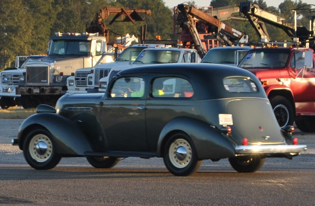 1936 Studebaker Dictator SixSt. Regis Custom Brougham 2-Door Sedan